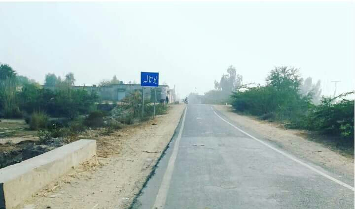 I also Uploaded this Photo on Botala Facebook Page & on website